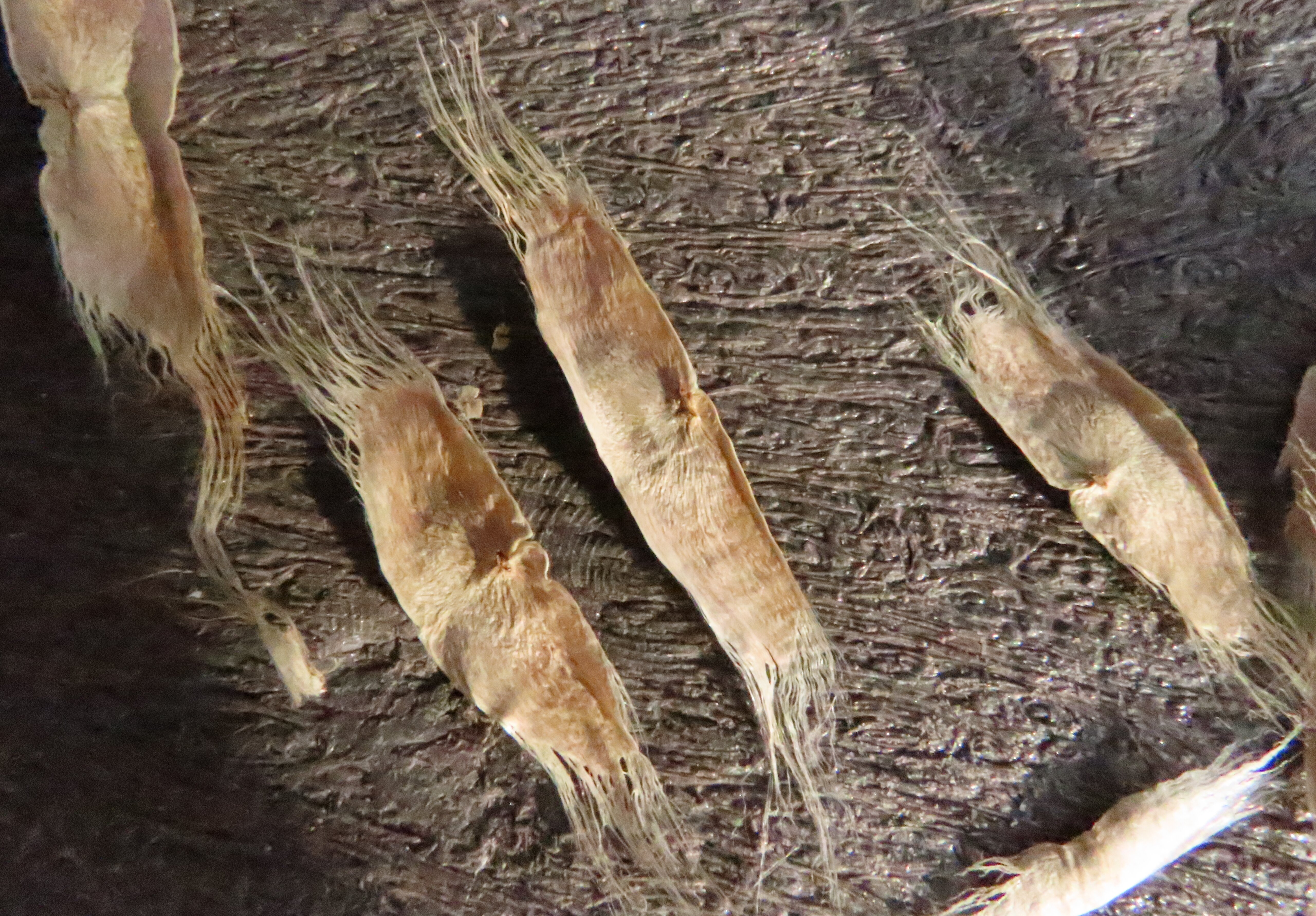 The winged seeds of Catalpa bignonioides are nearly all wing with frills at the wingtips. The seed itself is a slight bulge and wrinkle in the middle. The wings are expansions of the testa.